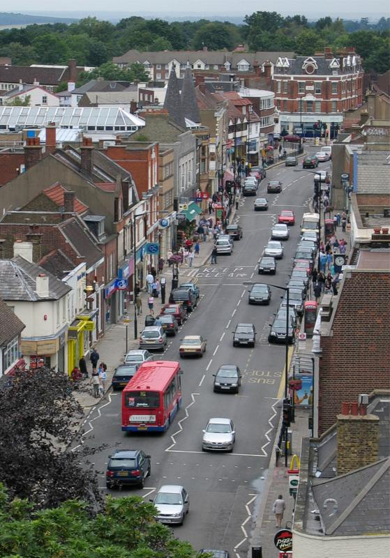 Barnet High Street, from the tower of St John The Baptist Church. Photograph taken by Michael Reeve, July 10, 2004.